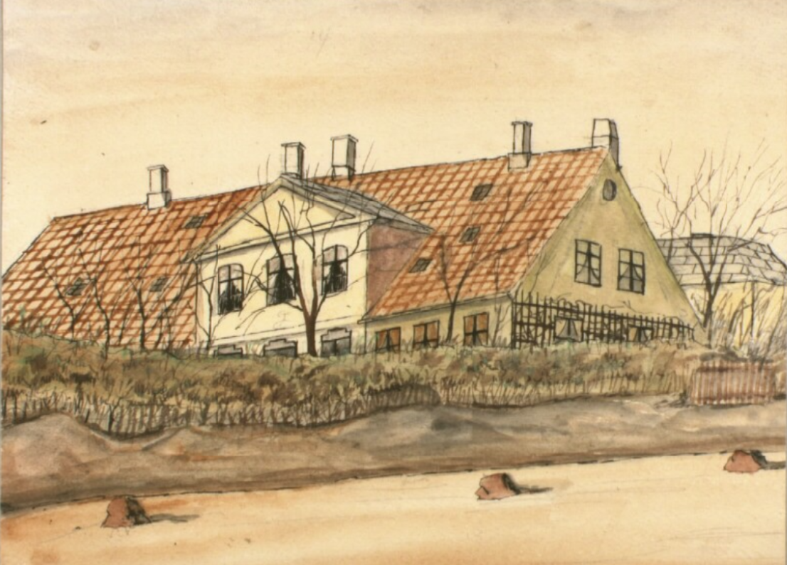 Tagenshus at Lersøen outside Copenhagen, Denmark